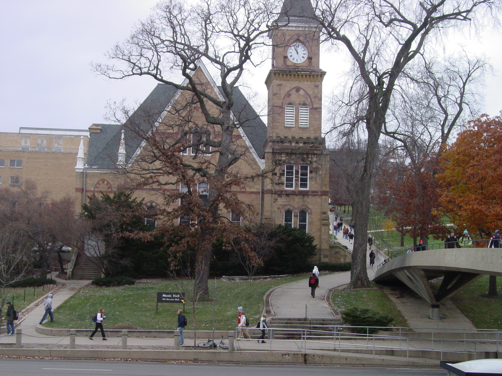 Music Hall on a crisp Fall day at the University of Wisconsin-Madison